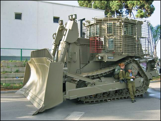 An armored Caterpillar D9R bulldozer of the Israeli Defense Forces, with add-on slat armor against ATGM & RPG rockets. Photographed by FiReBall from Fresh's Military & Security Forum, in LIC 2005 exhibition in Tel Aviv, Israel. MathKnight